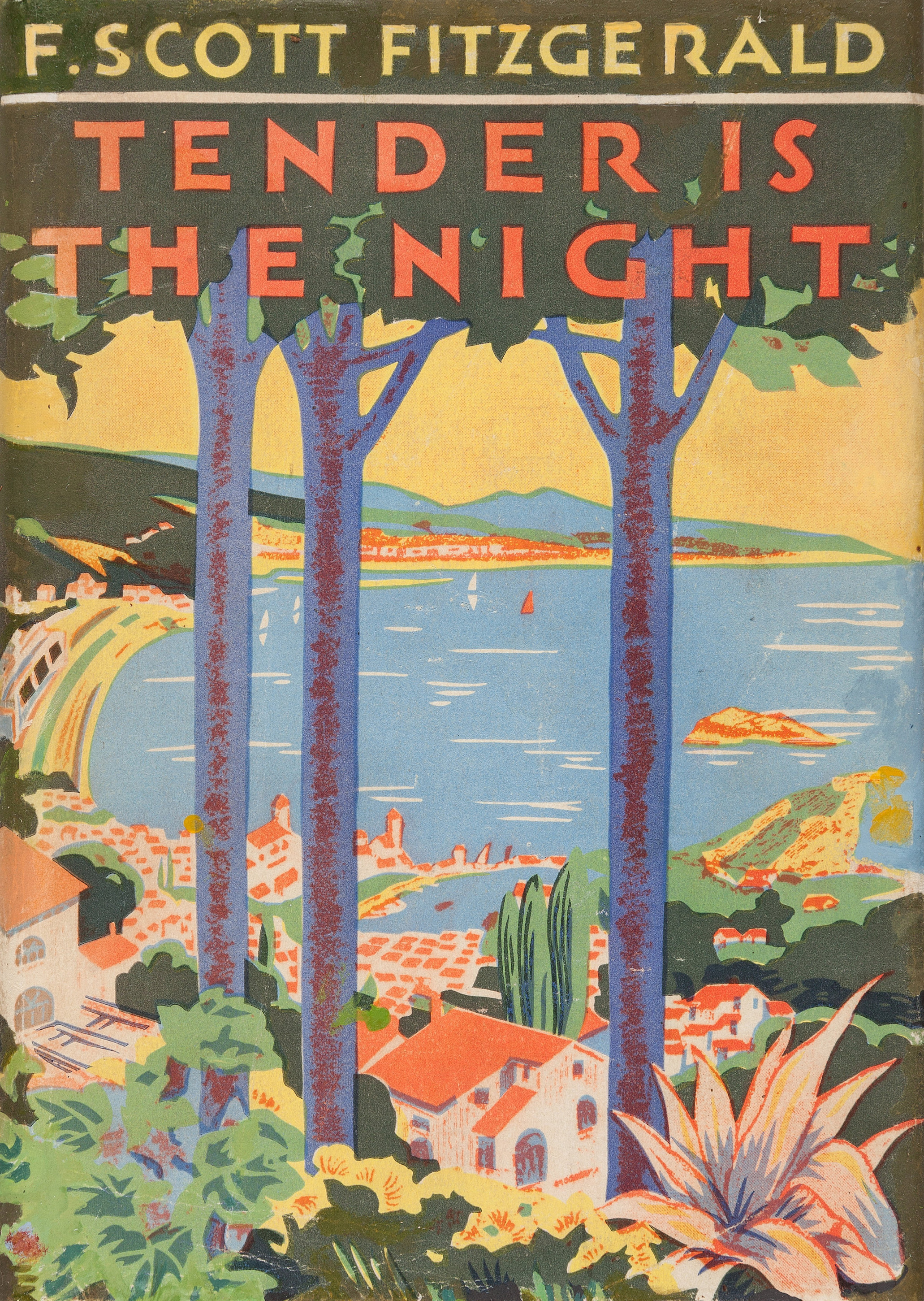 First-edition dust jacket cover of Tender Is the Night (1934) by the American author F. Scott Fitzgerald.